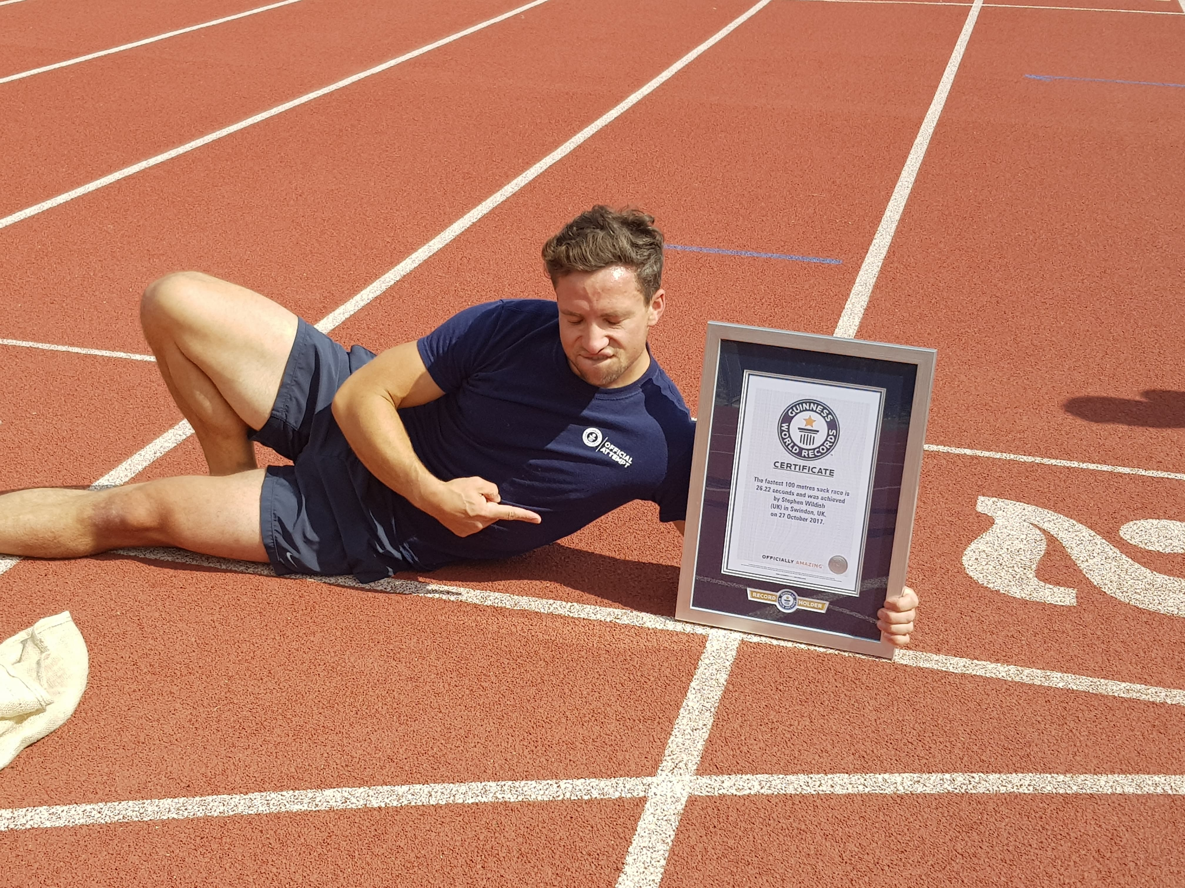 Stephen Wildish with the 100m sack race world record certificate from Guinness World Records